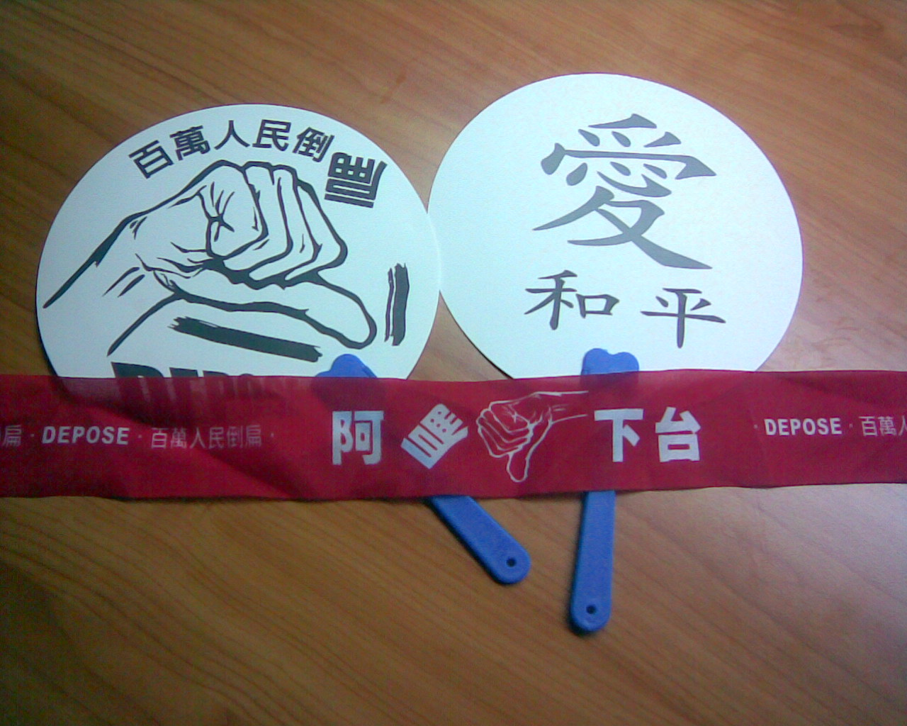 Some items distributed in 2006 anticorruption protest against Chen Shui-bian.